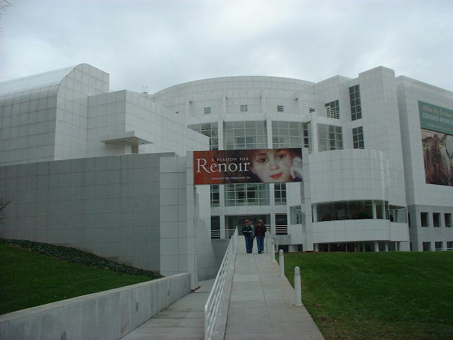 High Museum of Art, Atlanta, architect: Richard Meier 22:19, 5 June 2005 WestinPeachtree 640x480 (43696 bytes)